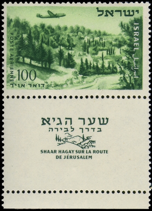 Airmail 1954 stamp- 100 mil, Second definitive series. Inscription on tab: "Sha'ar Hagai on the way to Jerusalem".